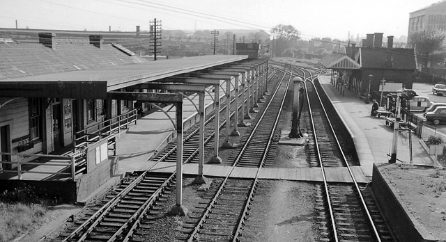 Bedford St Johns railway station. Cambridge - Bletchley line, which was closed on 1/1/68, view SW towards Bletchley (left), the connection to Bedford Midland Road being to the right. This station survived as a terminus until on 14/5/84 a replacement station was opened on the loop to Midland Road station and Bletchley trains then terminated there.